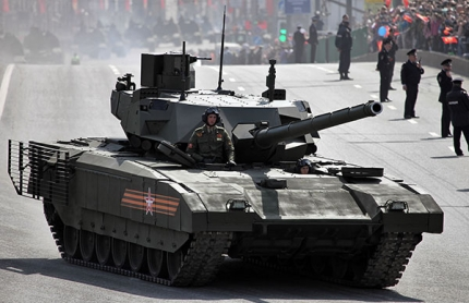 the Russian main battle tank T-14 armata